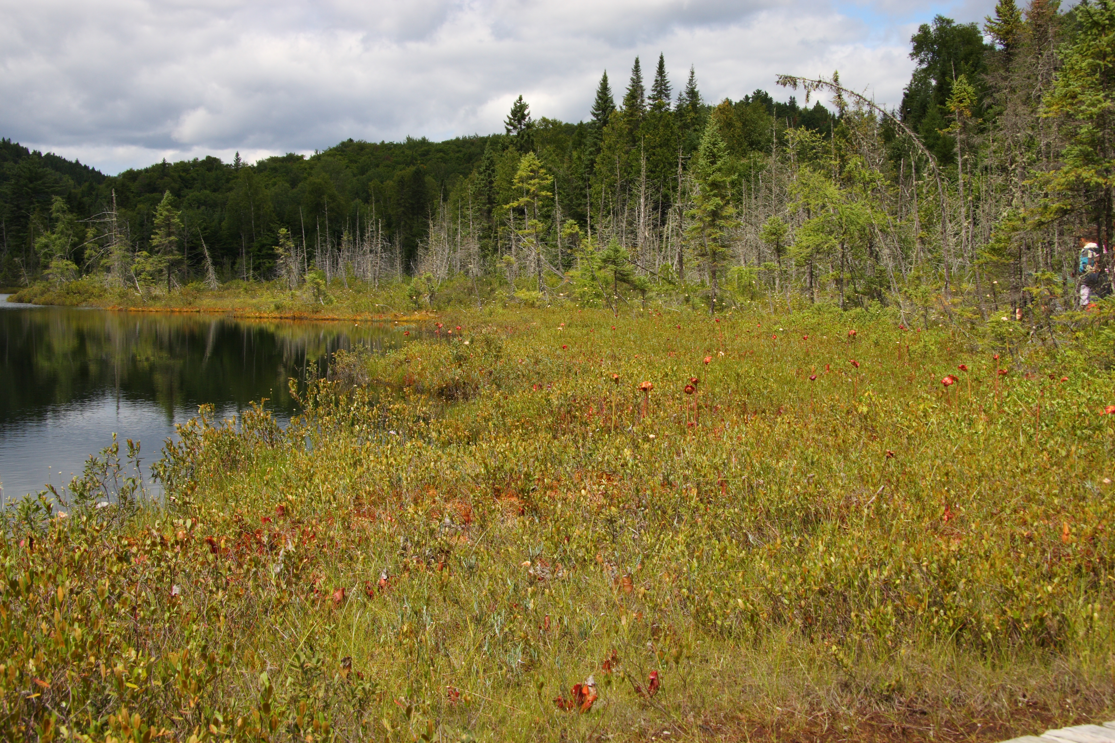 Bog at the Lac de la Tourbière, La Mauricie National Park, Quebec, Canada